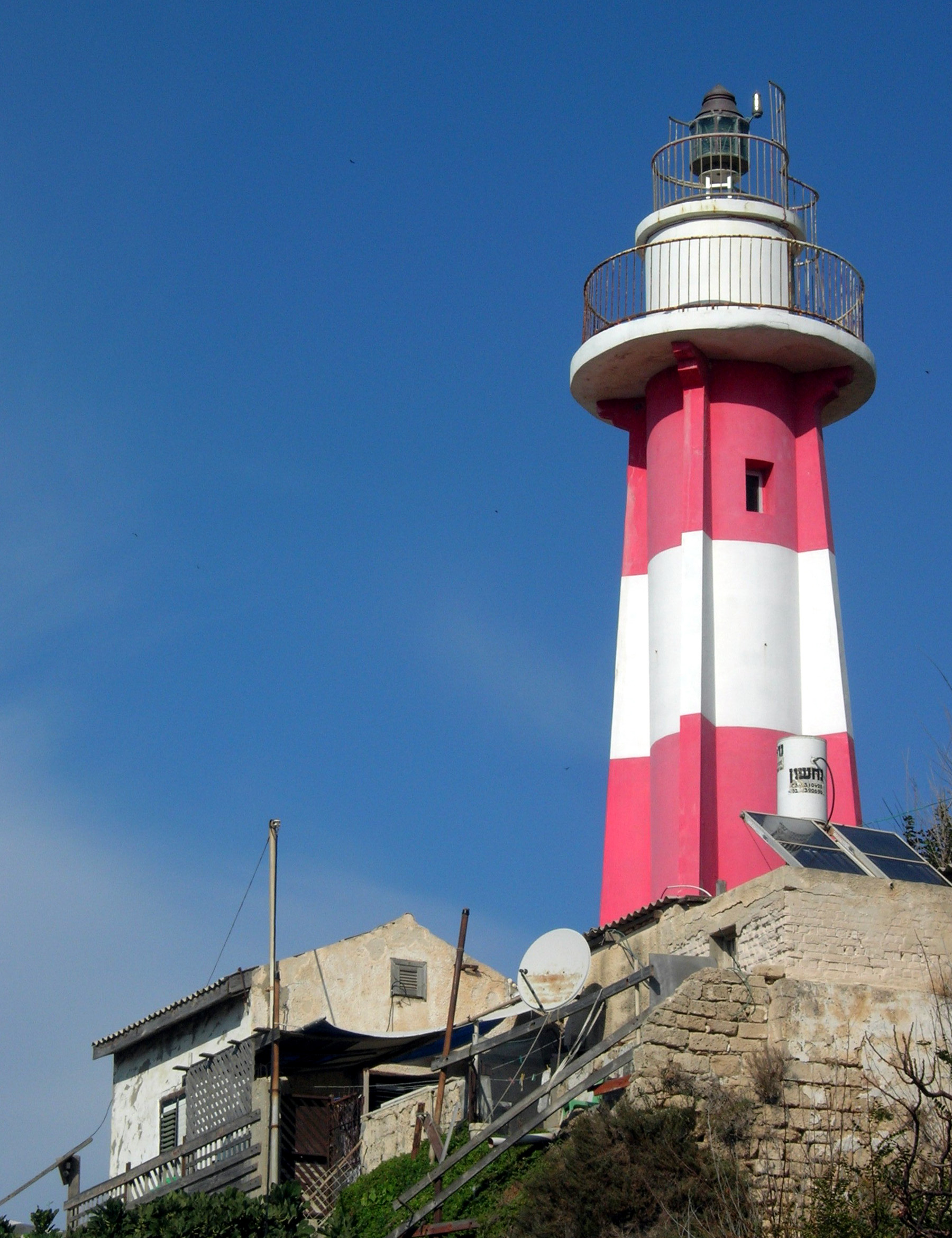 Description =Phare du port de Jaffa Source =Photo taken by Remi Jouan Date =Octobre 2006 Author =Remi Jouan